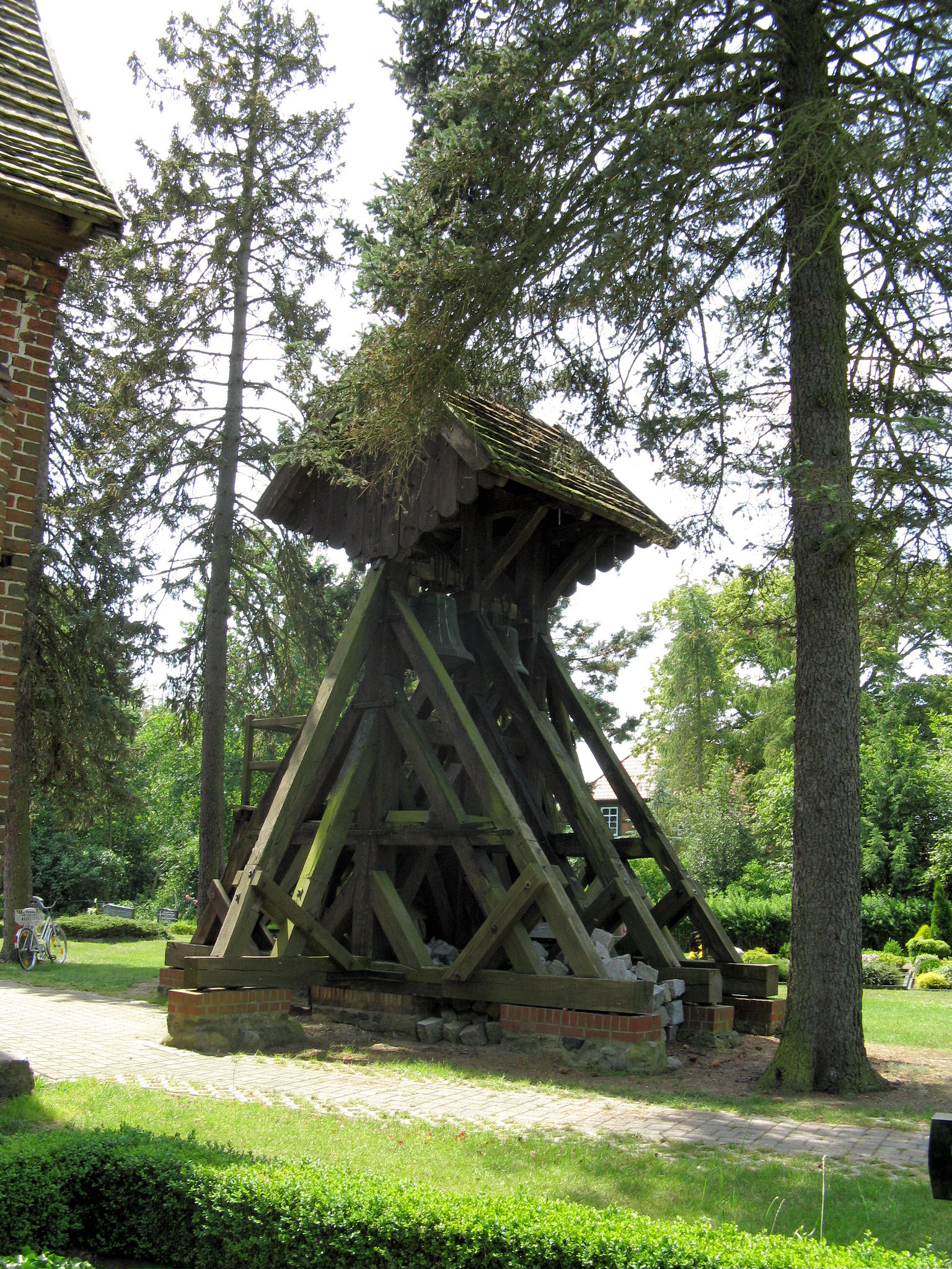 Bell tower at church in Garwitz, disctrict Parchim, Mecklenburg-Vorpommern, Germany